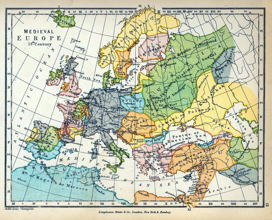 Map of Medieval Europe in the 13th Century.